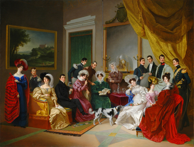 "The La Marmora Family" The family of italian general Alfonso La Marmora (1804-1878)